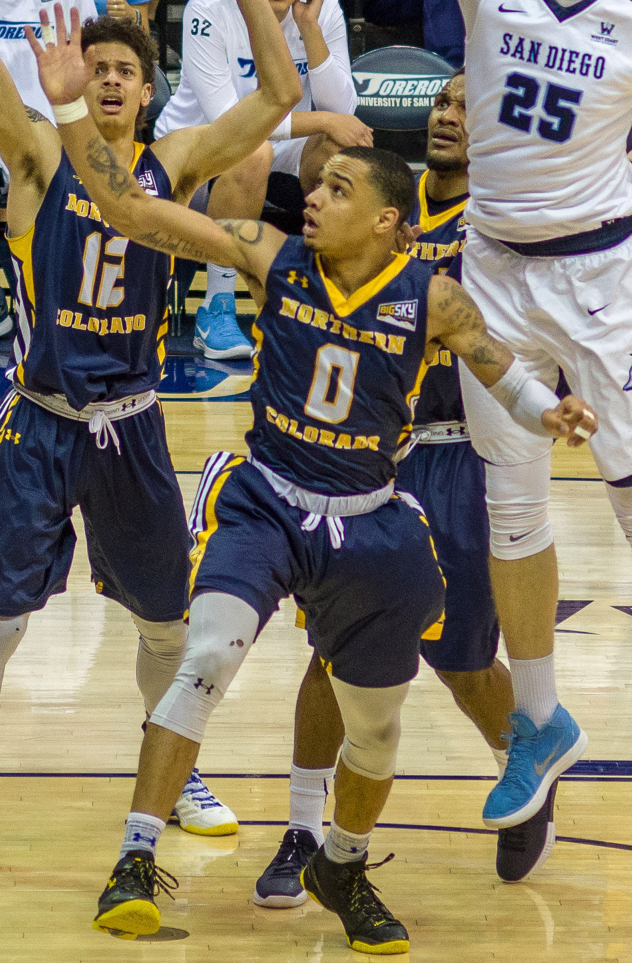 San Diego Toreros vs UNC Bears